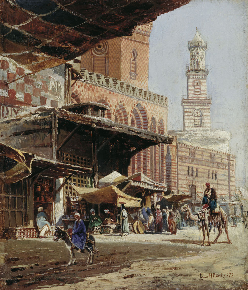 Nikolay Makovsky (1842-1886) Cairo